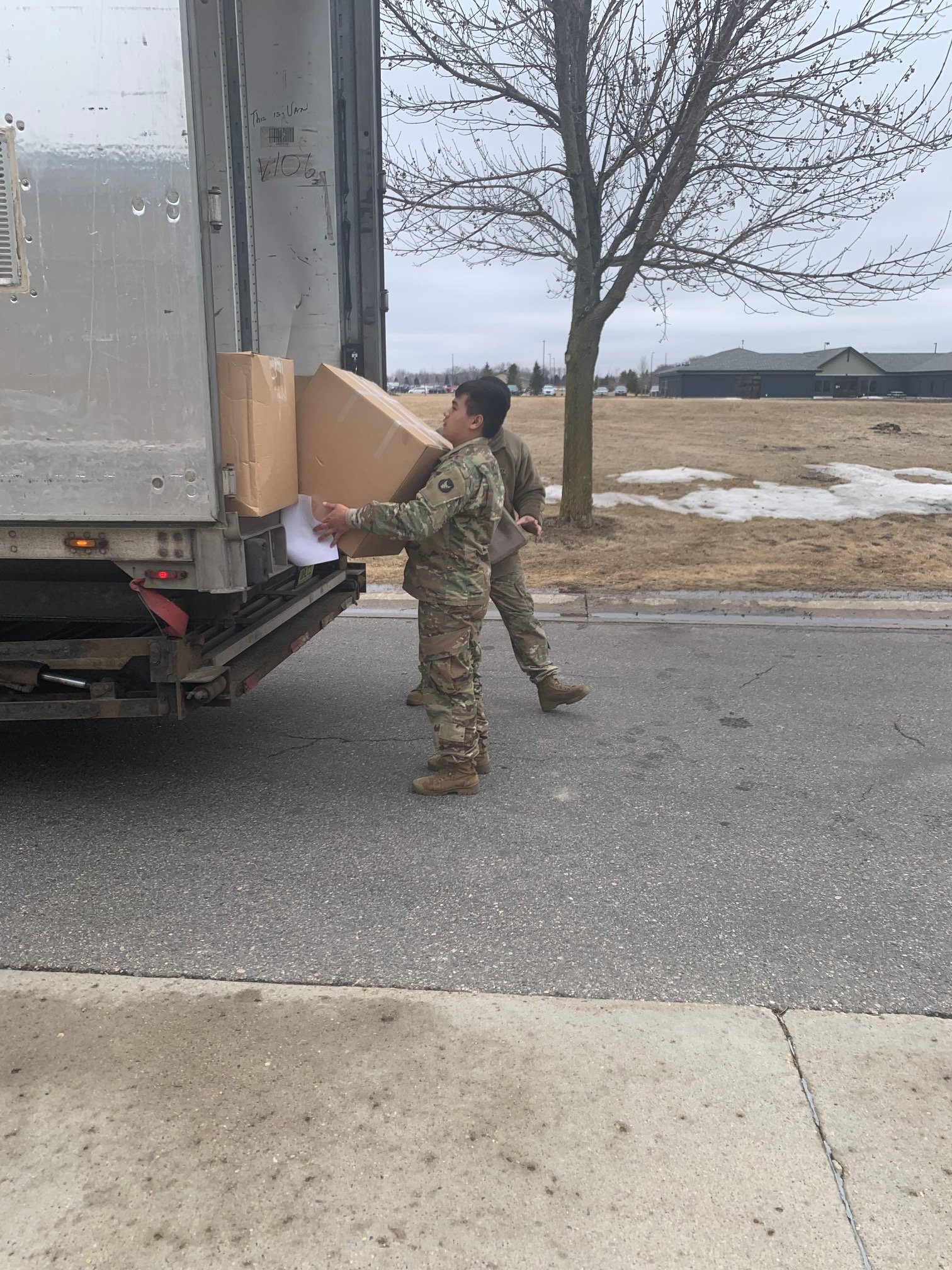 Minnesota National Guard members deliver more than 1,000 surgical masks to each of the 8 Emergency Medical Services regions in Minnesota March 18, 2020, for use by first responders. The masks come from the U.S. Property and Fiscal Office warehouse at Camp Ripley. (Courtesy of the Minnesota National Guard)